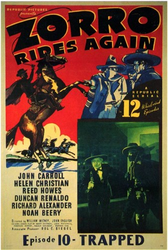 Poster for the 1937 film Zorro Rides Again.